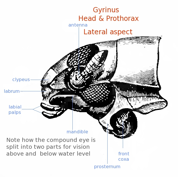 Lateral aspect of head of Gyrinus, showing the splitting of the eyes for view above & below water surface, while antennae monitor surface vibrations etc